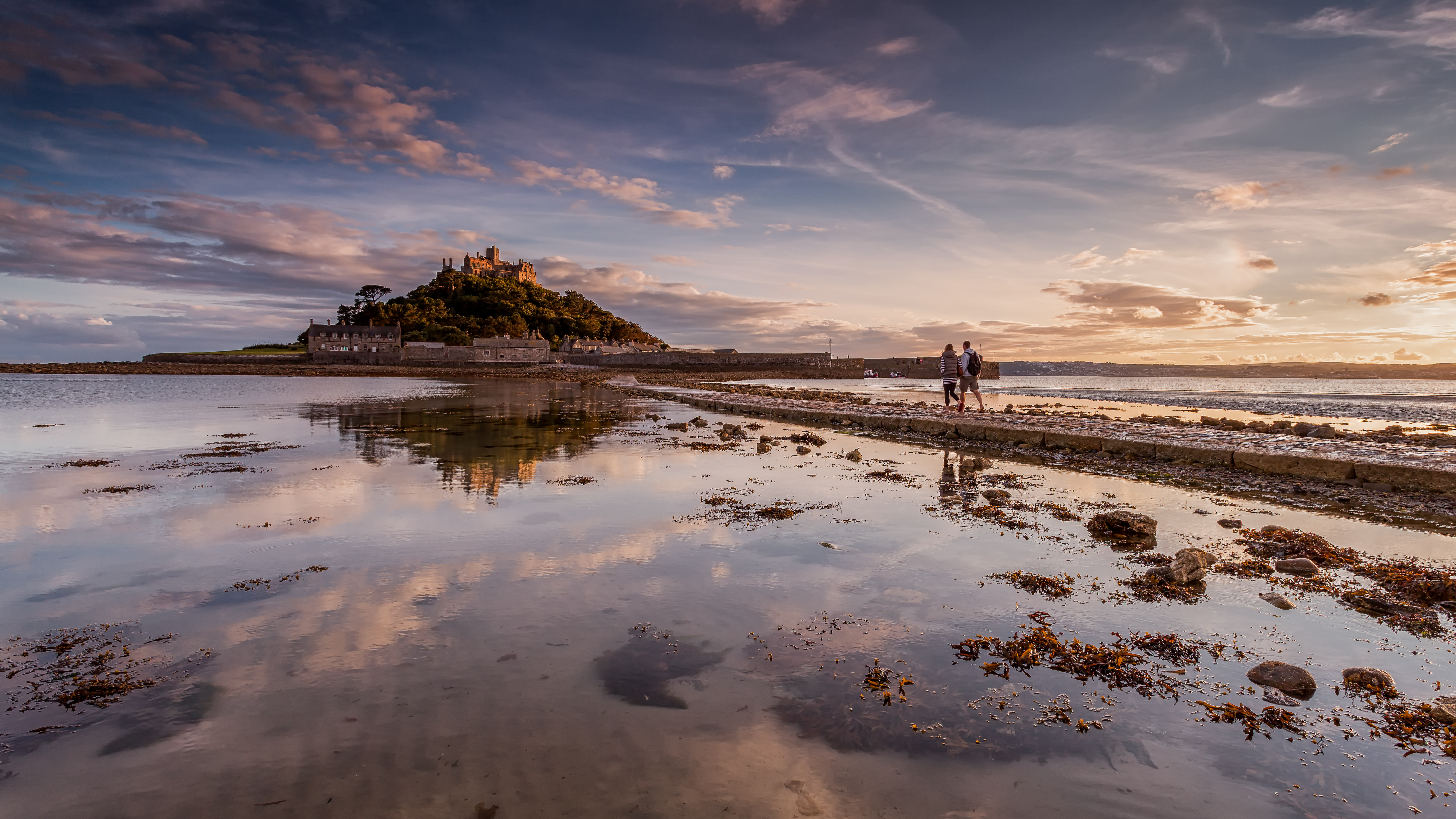 St Michaels Mount, Marazion in Cornwall UK